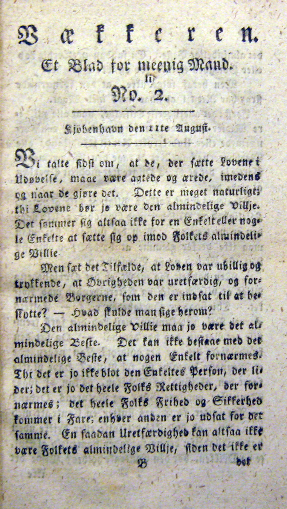 Vækkeren af Malthe Conrad Bruun.